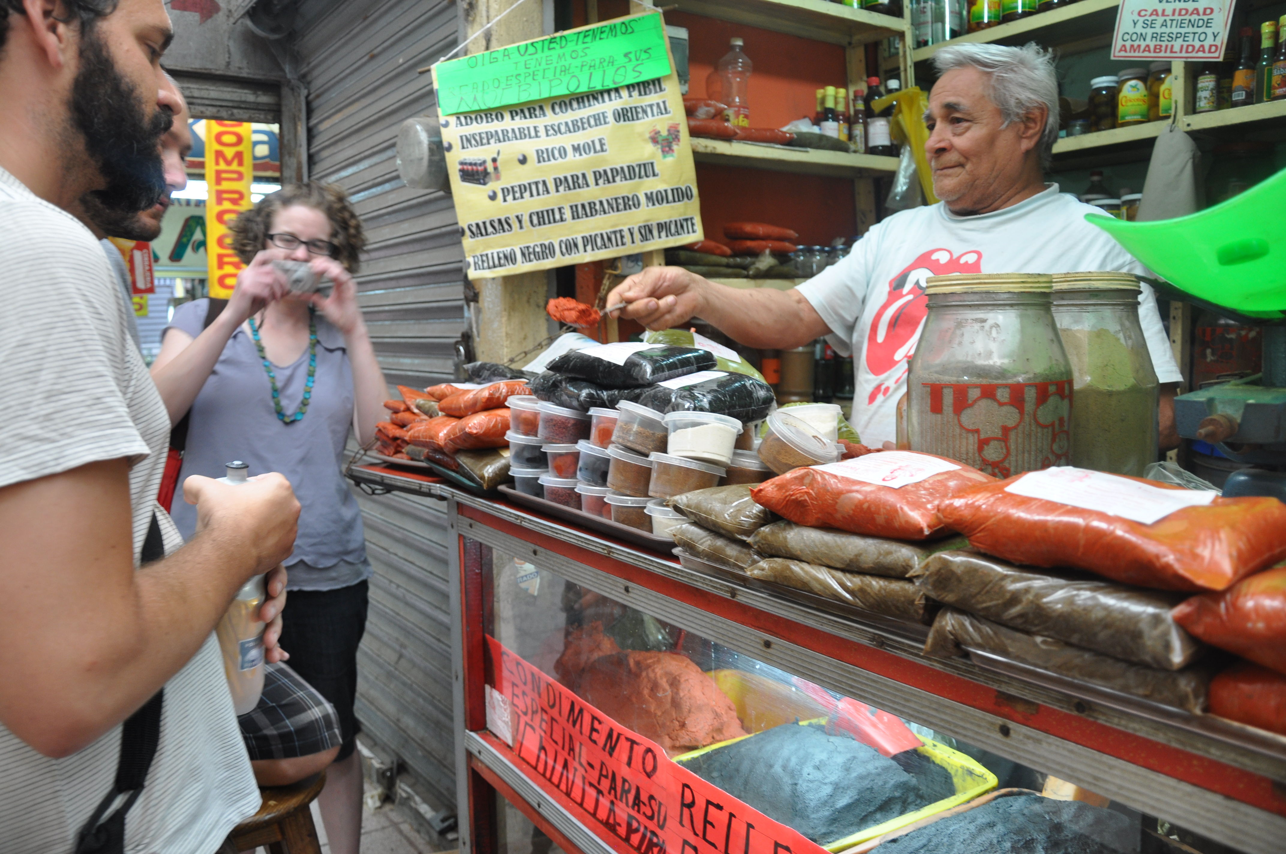 Mérida, Yucatán, Mexico